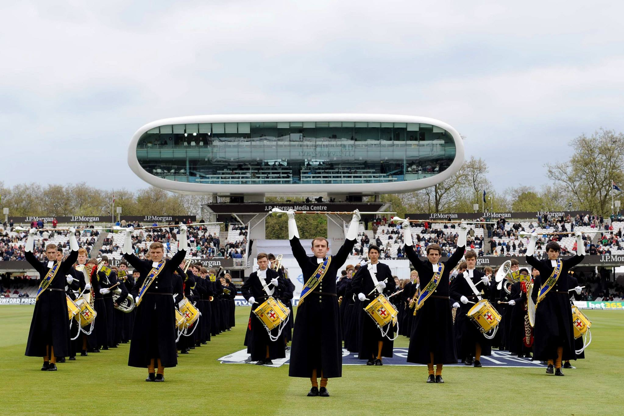 The Christ's Hospital Band performing during the lunch interval at a Cricket match at Lord's Cricket Ground 2013.